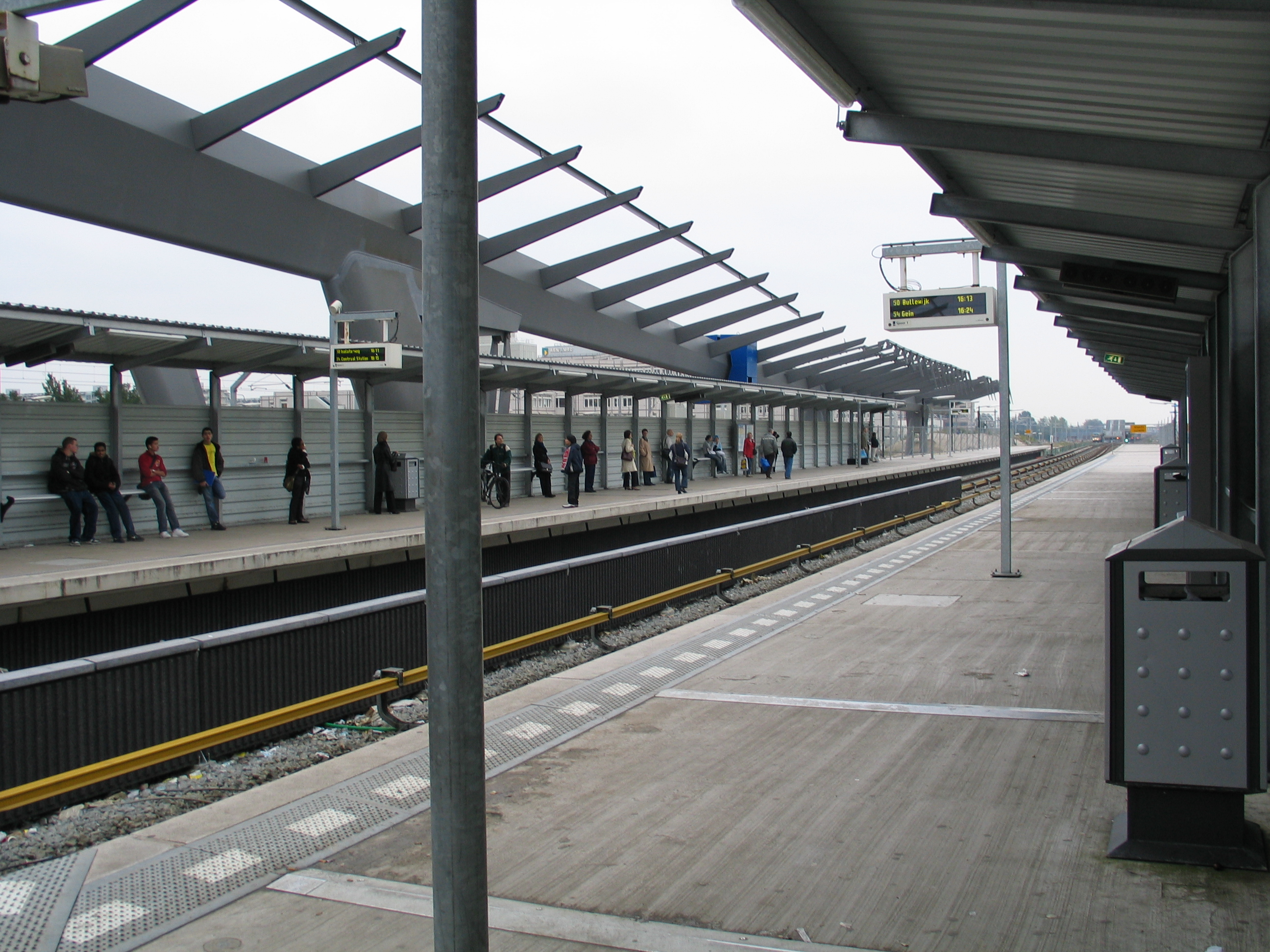 This picture shows train station Bijlmer, in Amsterdam, in The Netherlands. Author: Mig de Jong